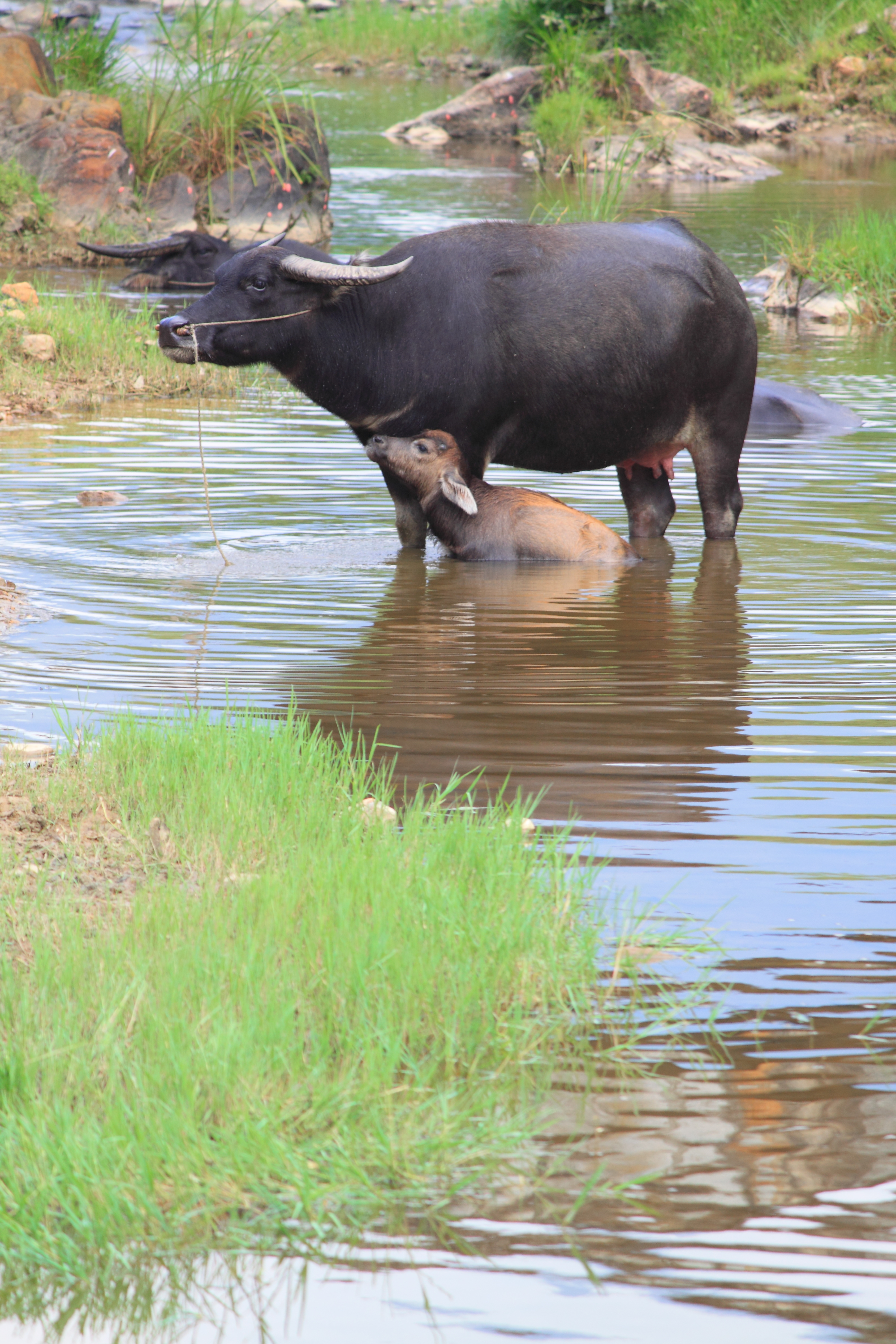 Water buffalo，in Wufu，Wuyishan City, Fujian, China.